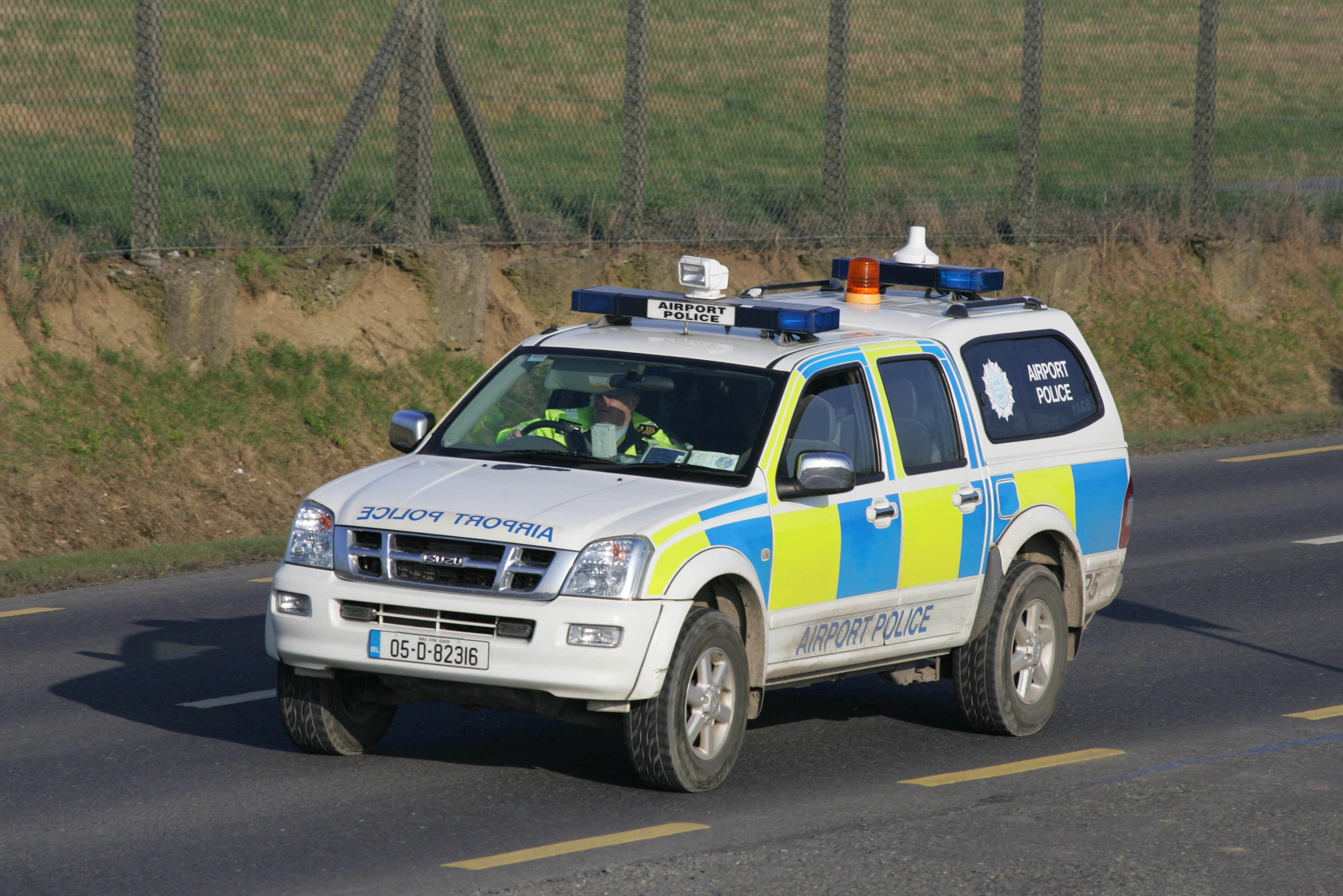 Dublin Airport Police Isuzu 05D82316 (Airport Police (Ireland))